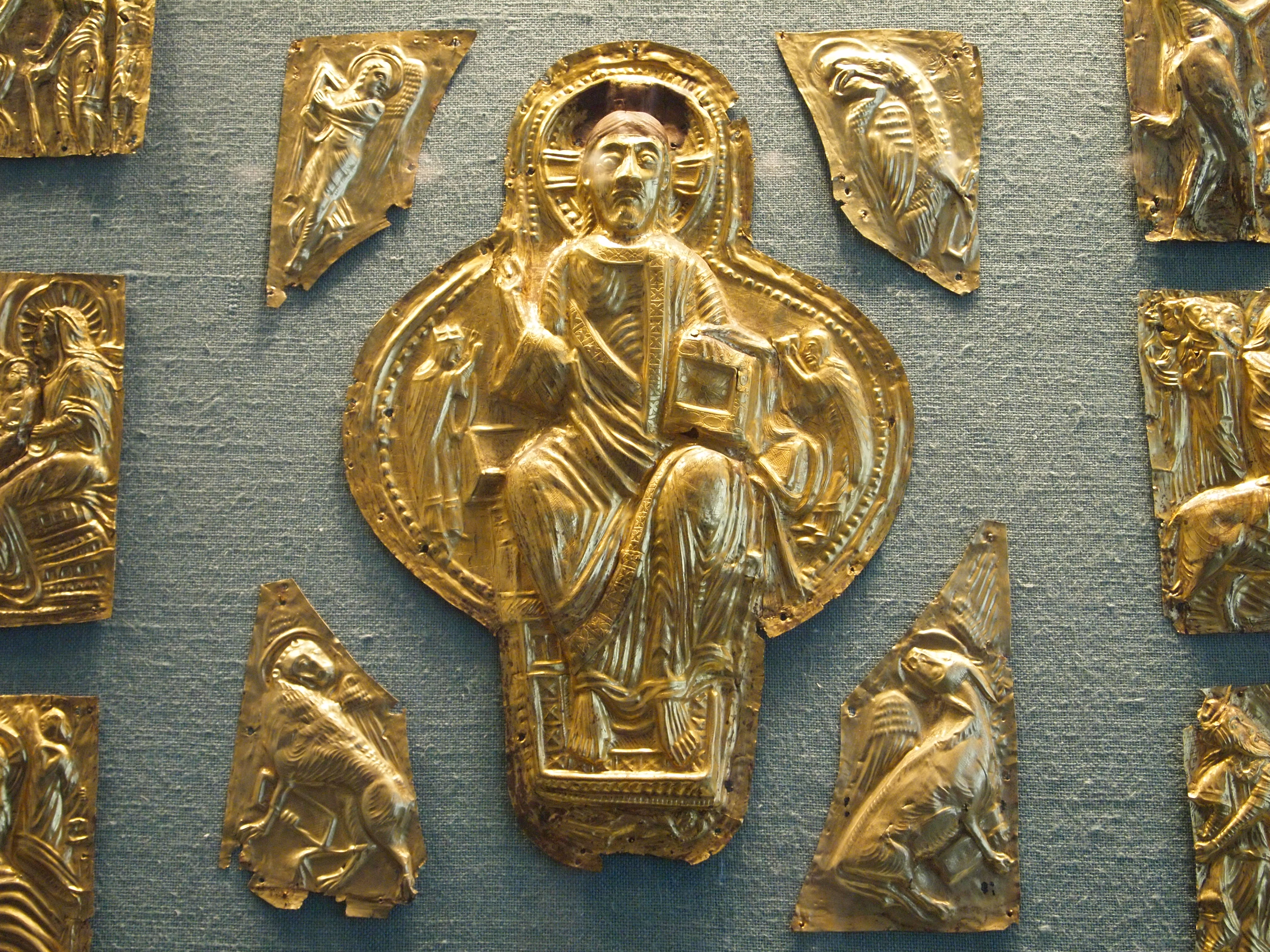 Pictures taken at the National Museet - The National Museum - Copenhagen Denmark during the Wikipedia Loves Nationalmuseet